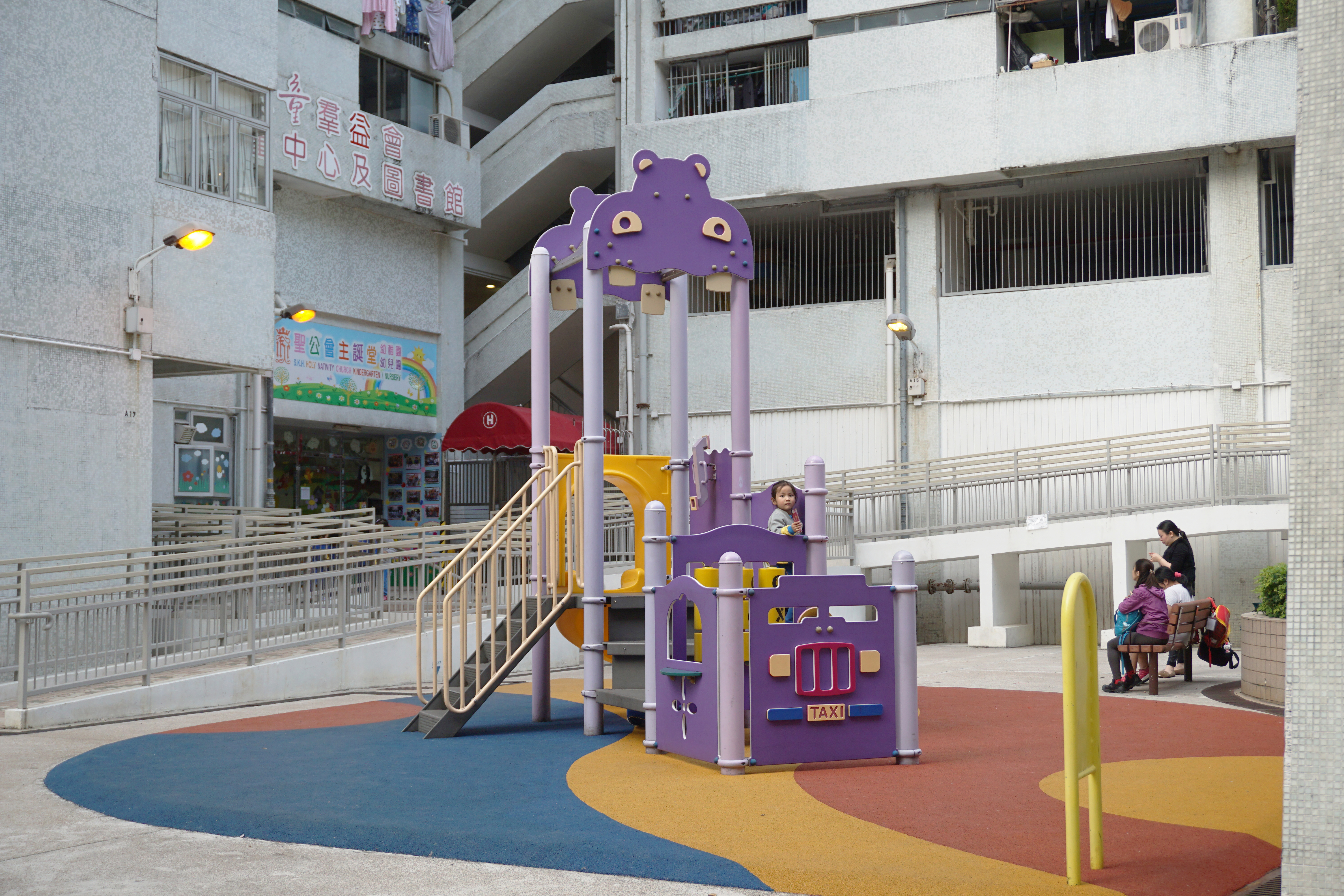 Ming Wah Dai Ha in Shau Kei Wan, Hong Kong.